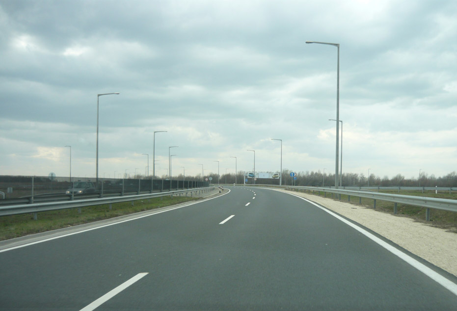 Route 4 (E 60) between Budapest and Vecsés, Hungary